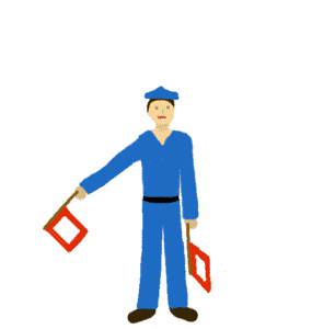 Letter A of the nautical semaphore flag signalling system Source: Martin Hawlisch (User:LosHawlos) My own drawing done in gimp First uploaded to de: in jun-2004